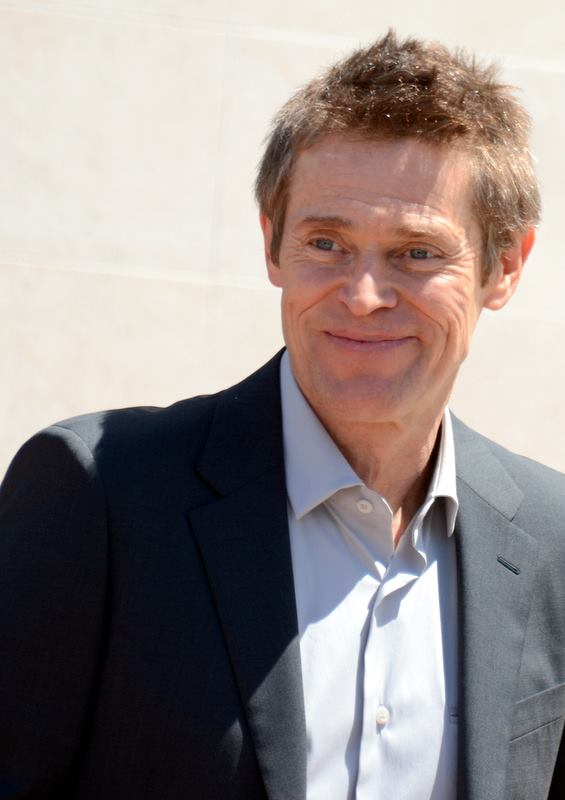 Willem Dafoe at the Cannes Film Festival